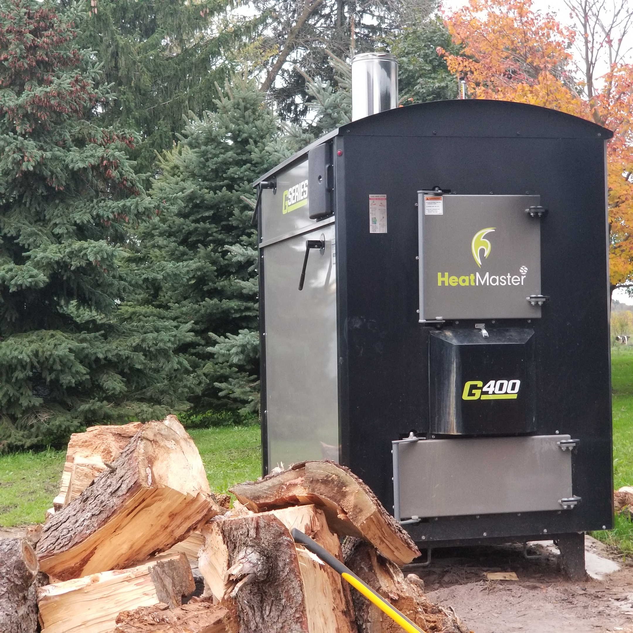 This is a picture of a HeatMaster SS G400 high efficiency outdoor wood boiler in use in Wisconsin.